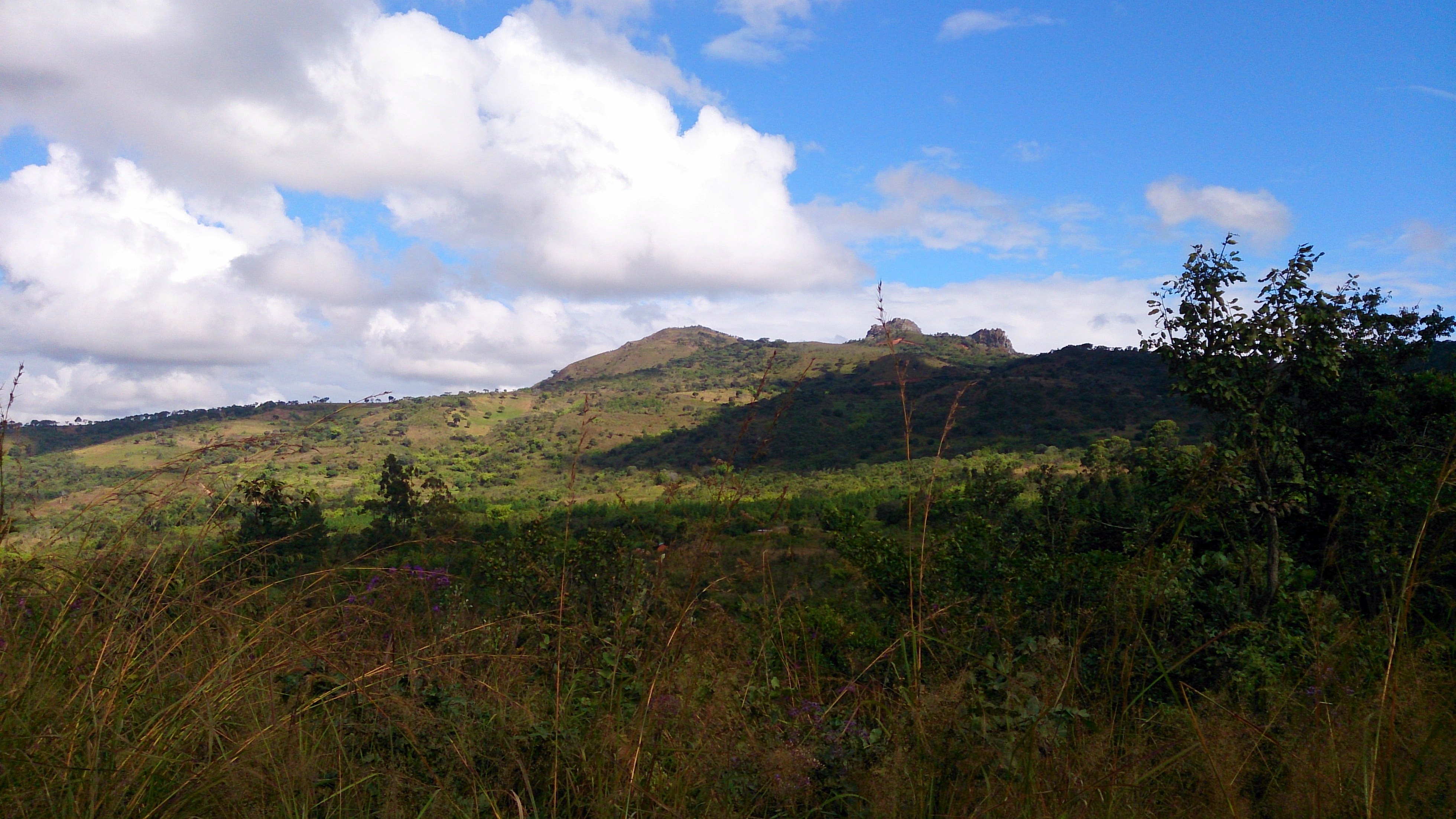 planned excavations of iron ore at Liganga in Tanzania